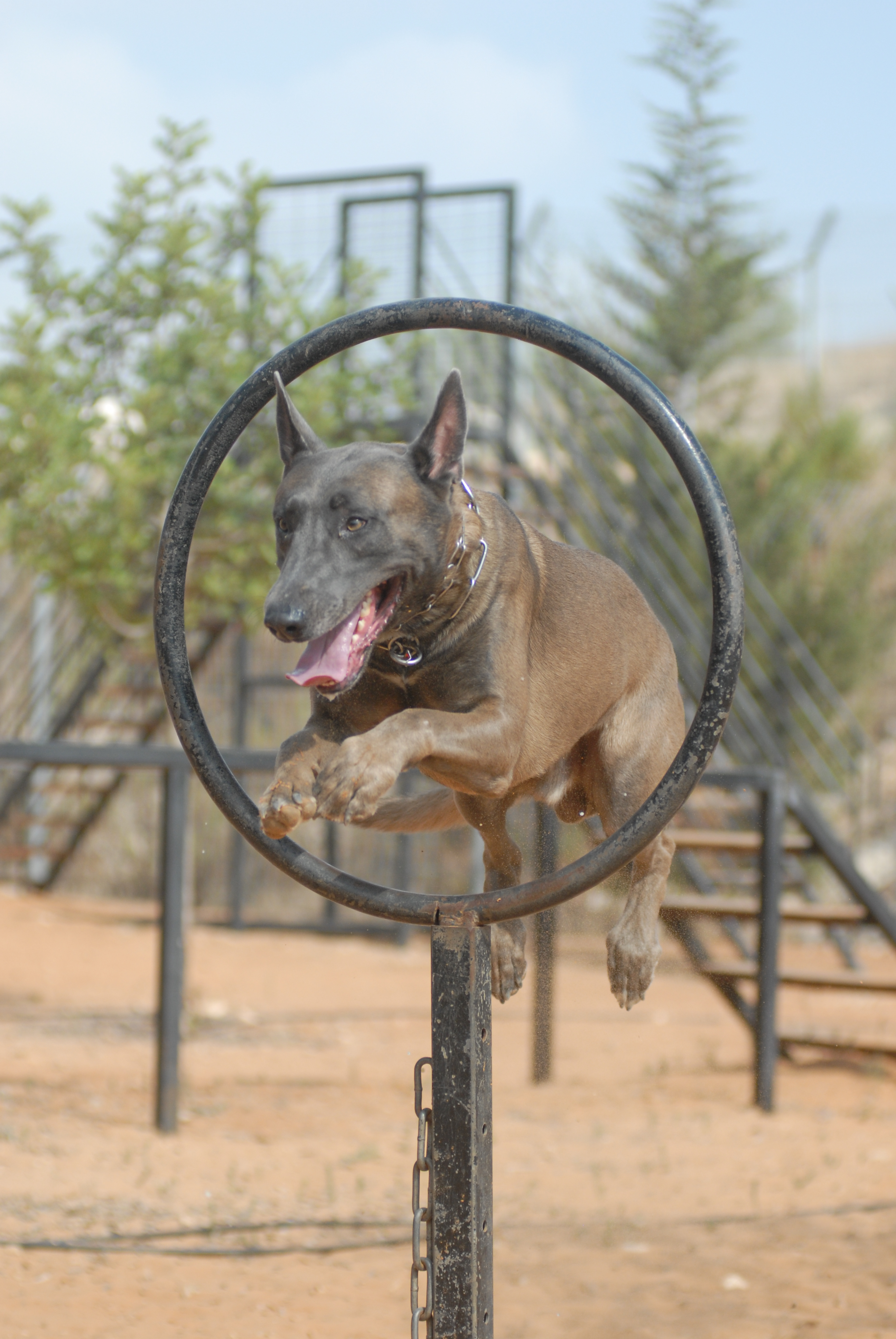 September 7, 2011 An Oketz (lit: 'Sting') Unit dog--from the official K-9 unit of the IDF--shows off his skills in the unit's training grounds. Featured as Photo of the Day on February 27, 2012. The Israel Defense Forces Facebook page The Israel Defense Forces blog Follow us on Twitter